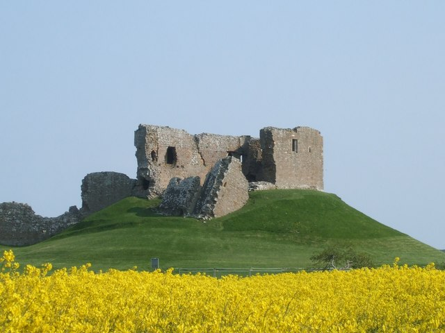 Duffus Castle and Oil Seed Rape